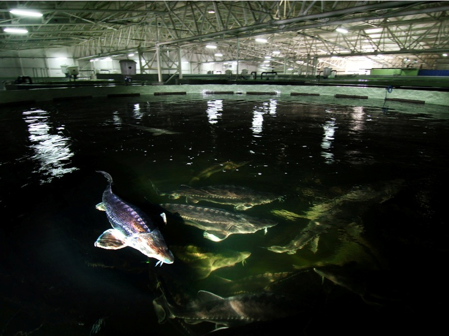 Basin in modern sturgeon farm